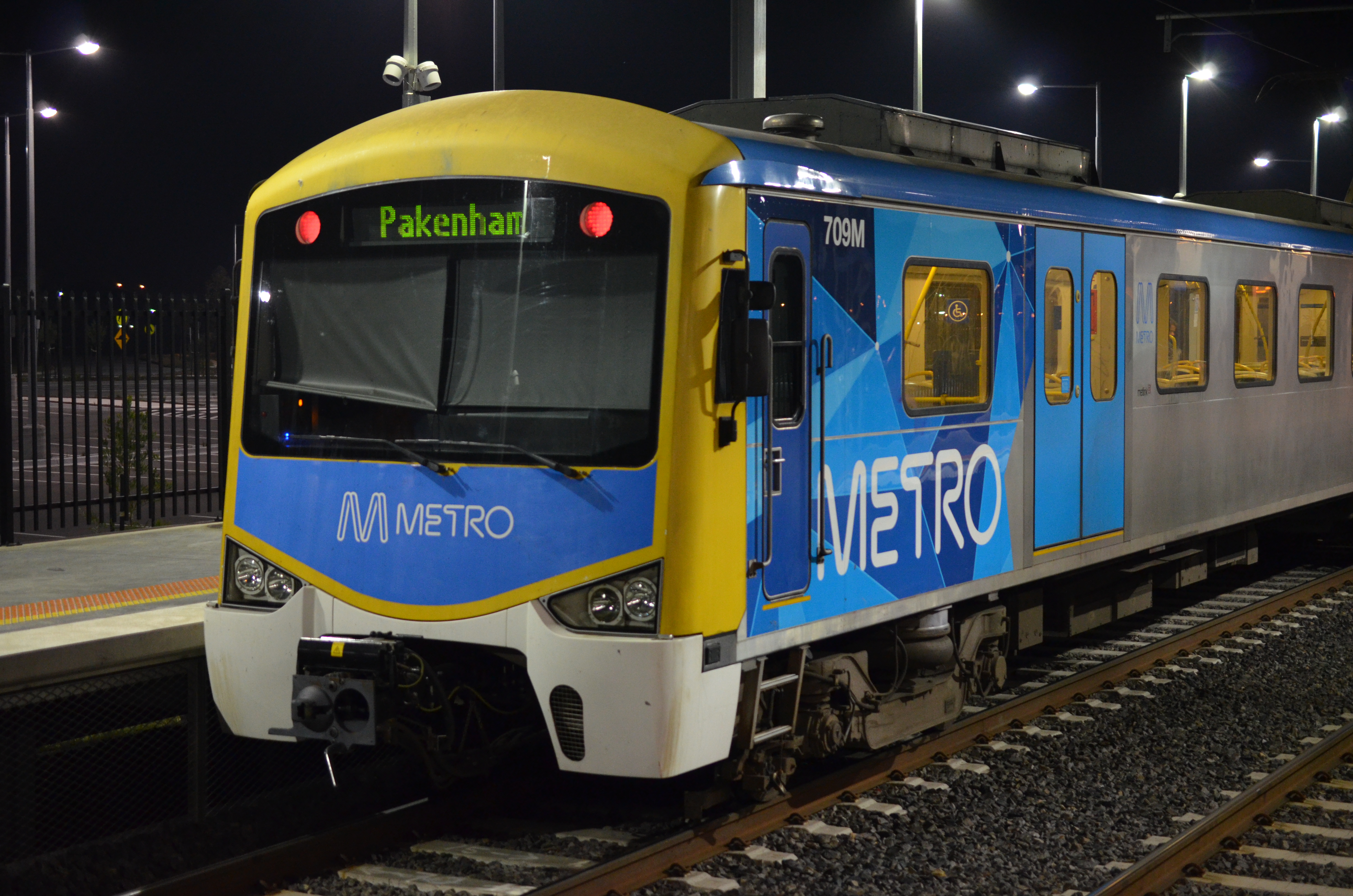 Siemens train passing through Cardinia Road station.